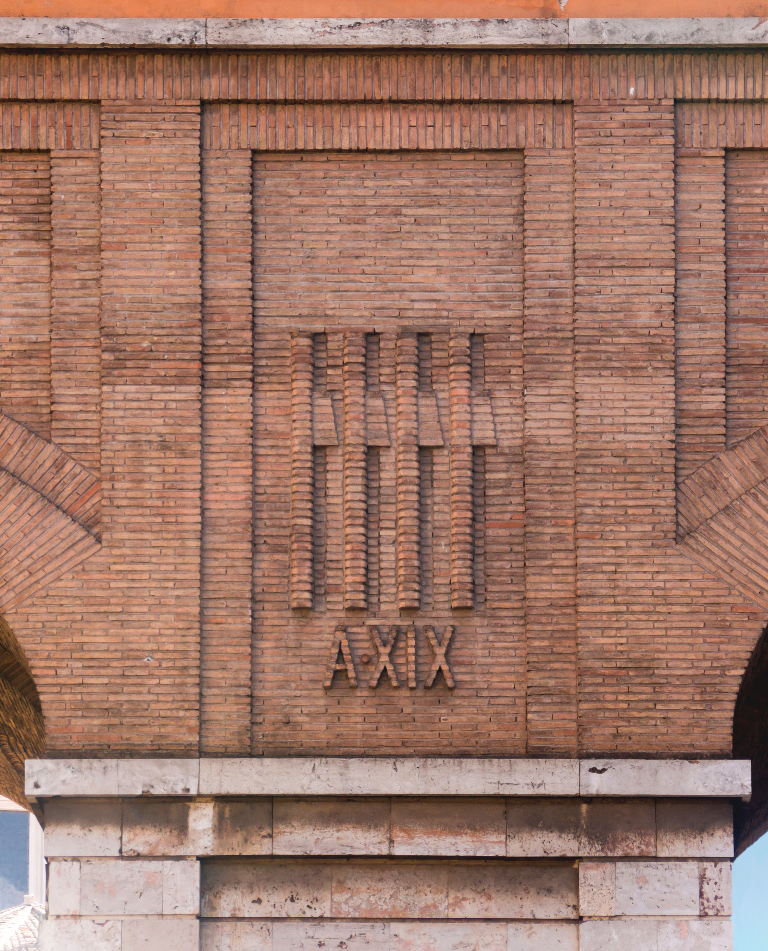 Fasci, year XIX, Rome, Italy